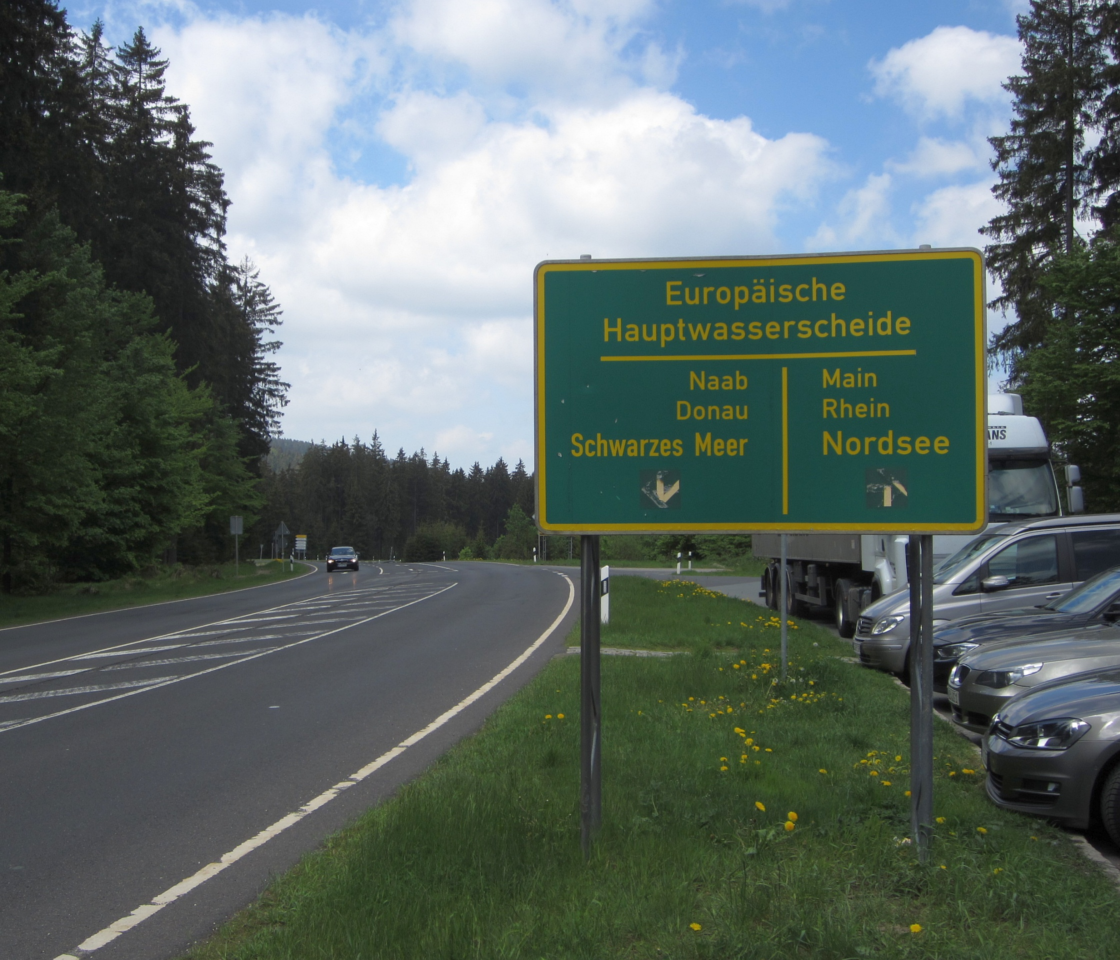 Rhine-Danube watershed sign at Bundesstraße 303, Fichtelgebirge